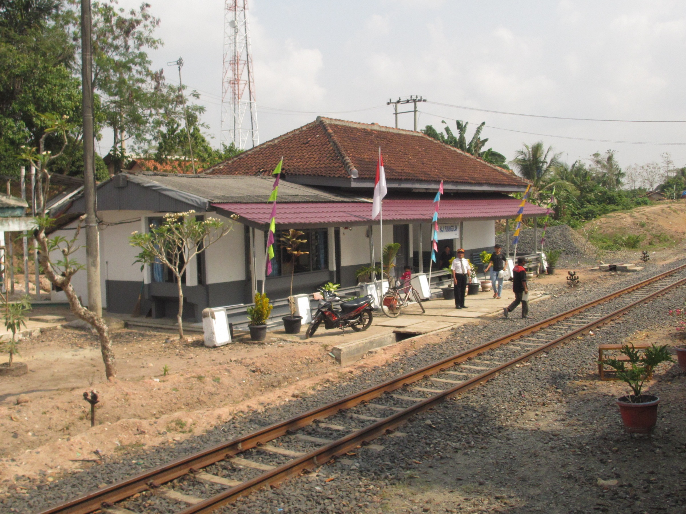 Hajipemanggilan Railway Station.